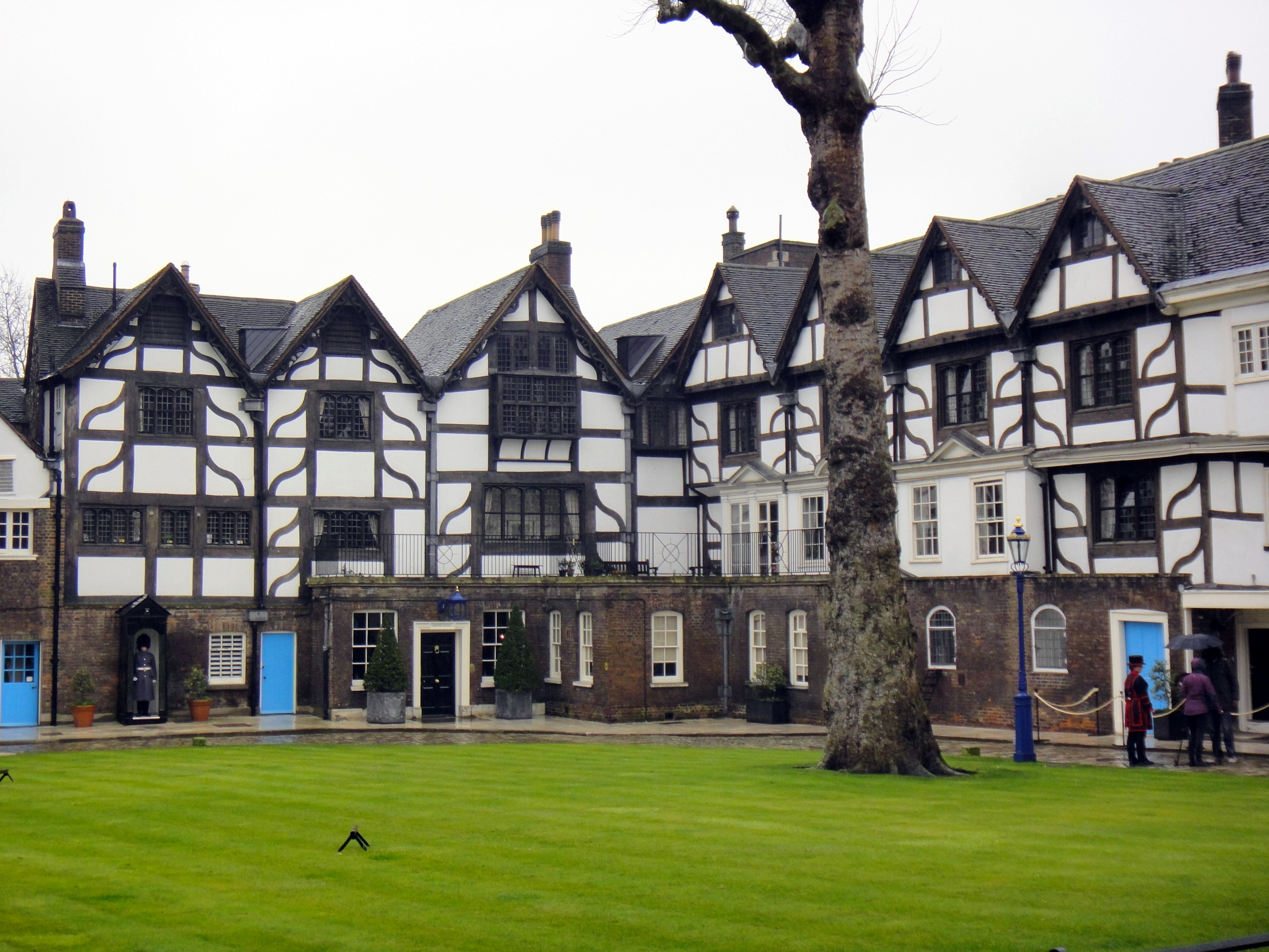 Queen's House, Tower of London